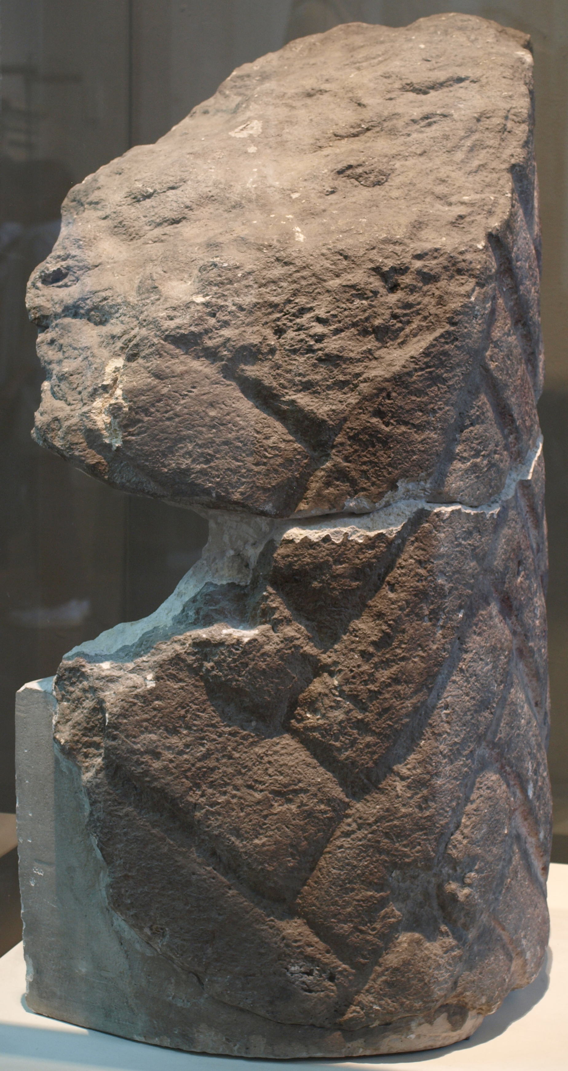 Fragment from the beard of the Sphinx from Giza; likely from the time of the 18th dynasty (circa 1420 BC) rather than from the time of the Sphinx's original construction during the Old Kingdom (circa 2550 BC). Found between the Sphinx's paws by an excavator in 1817. EA 58.